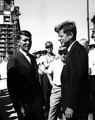 President John F. Kennedy is briefed by Astronaut Walter Schirra at Complex 14. The full MA-8 configuration that Schirra is scheduled to fly, a six-orbit mission, was displayed to the President, Vice President and Space Committee.